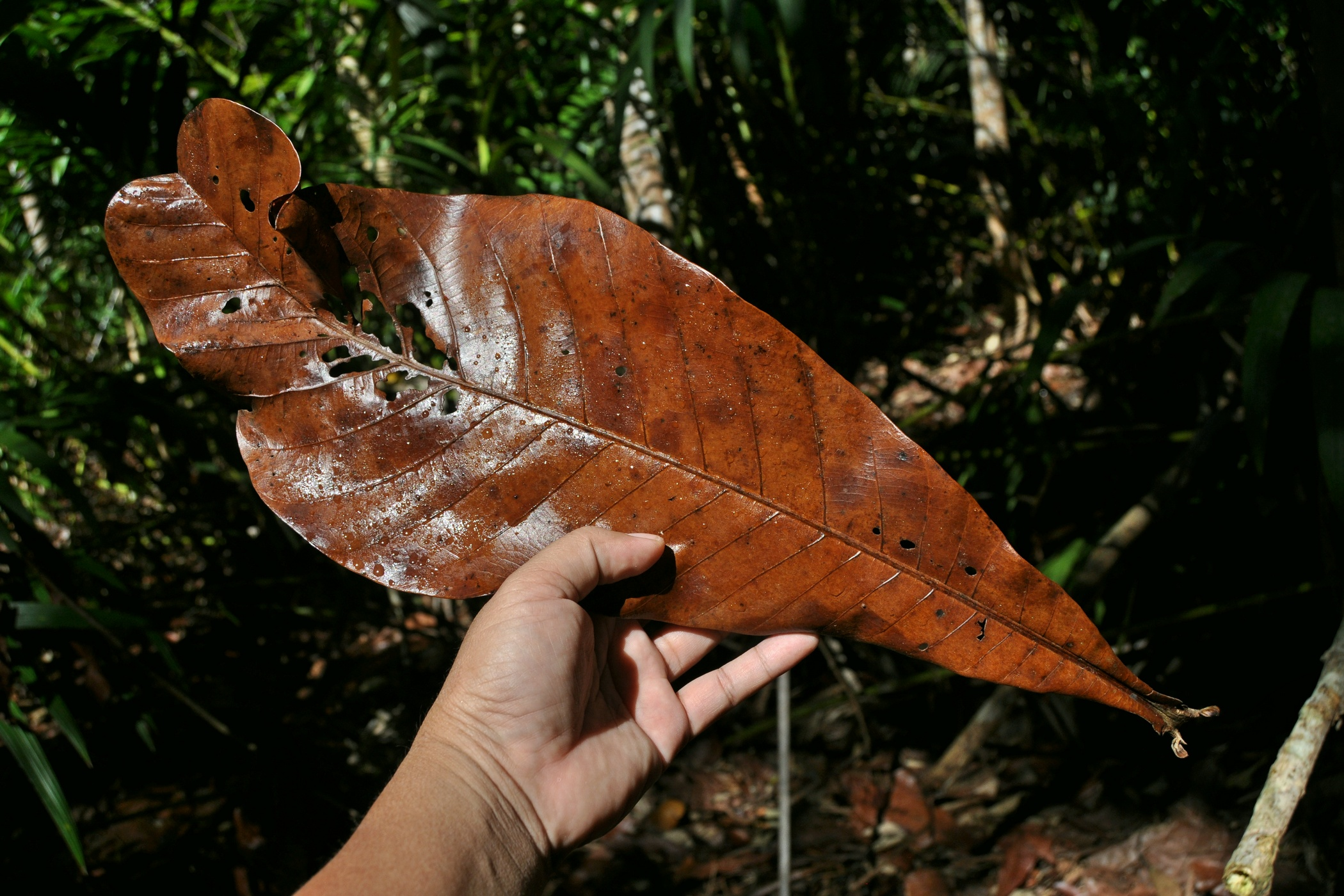 Campnosperma auriculatum, dry leaf. From Belitong, South Sumatra, Indonesia.